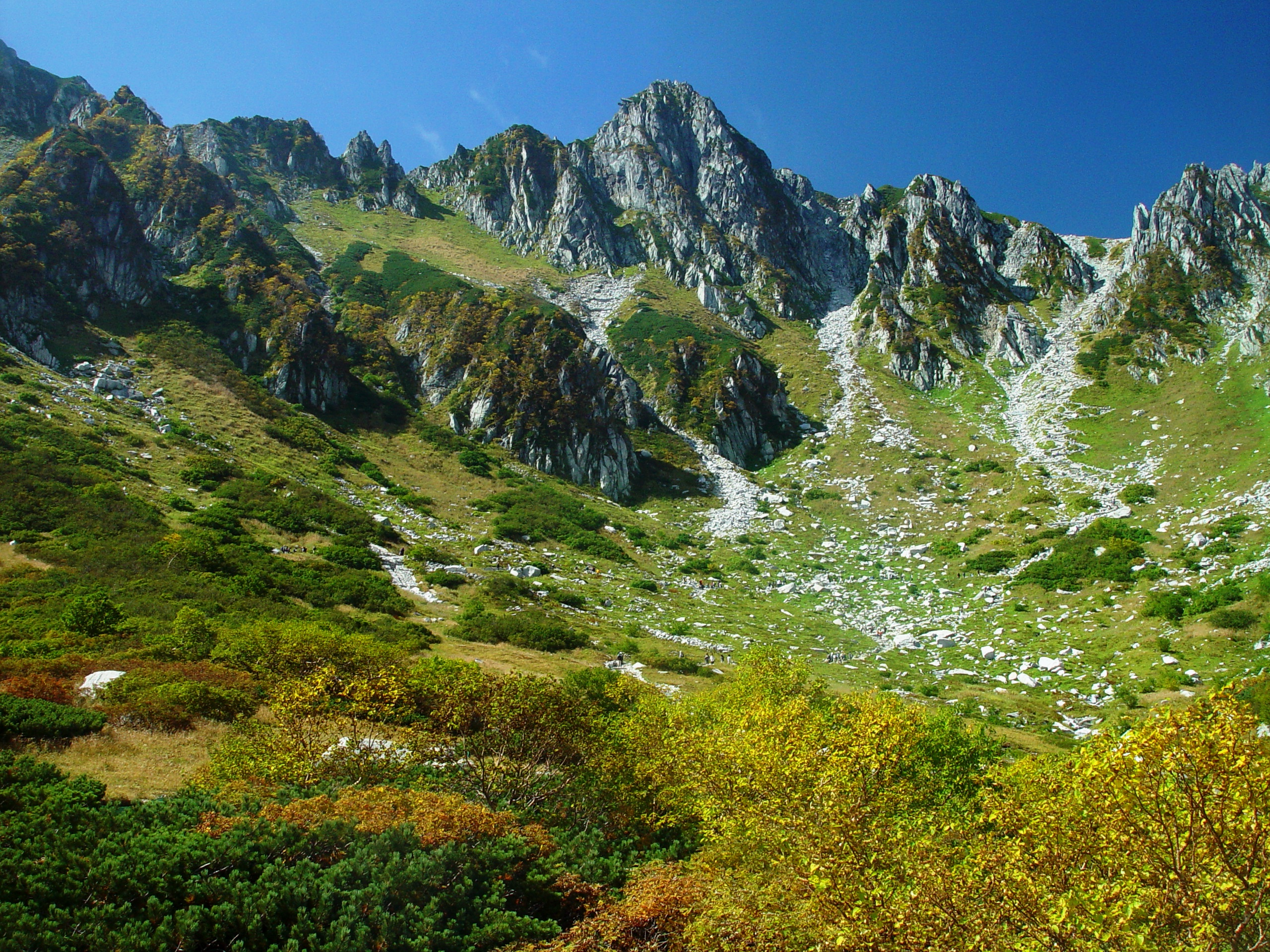 Mount Hōken in coloured leaves as seen from Senjojiki Cirque